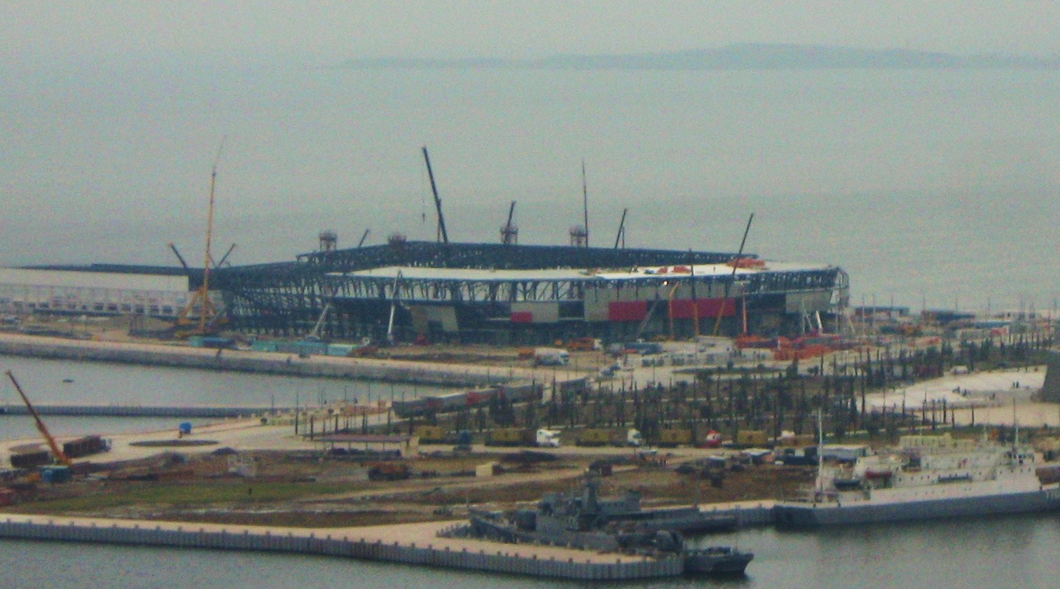 Baku Cystal Hall under construction.